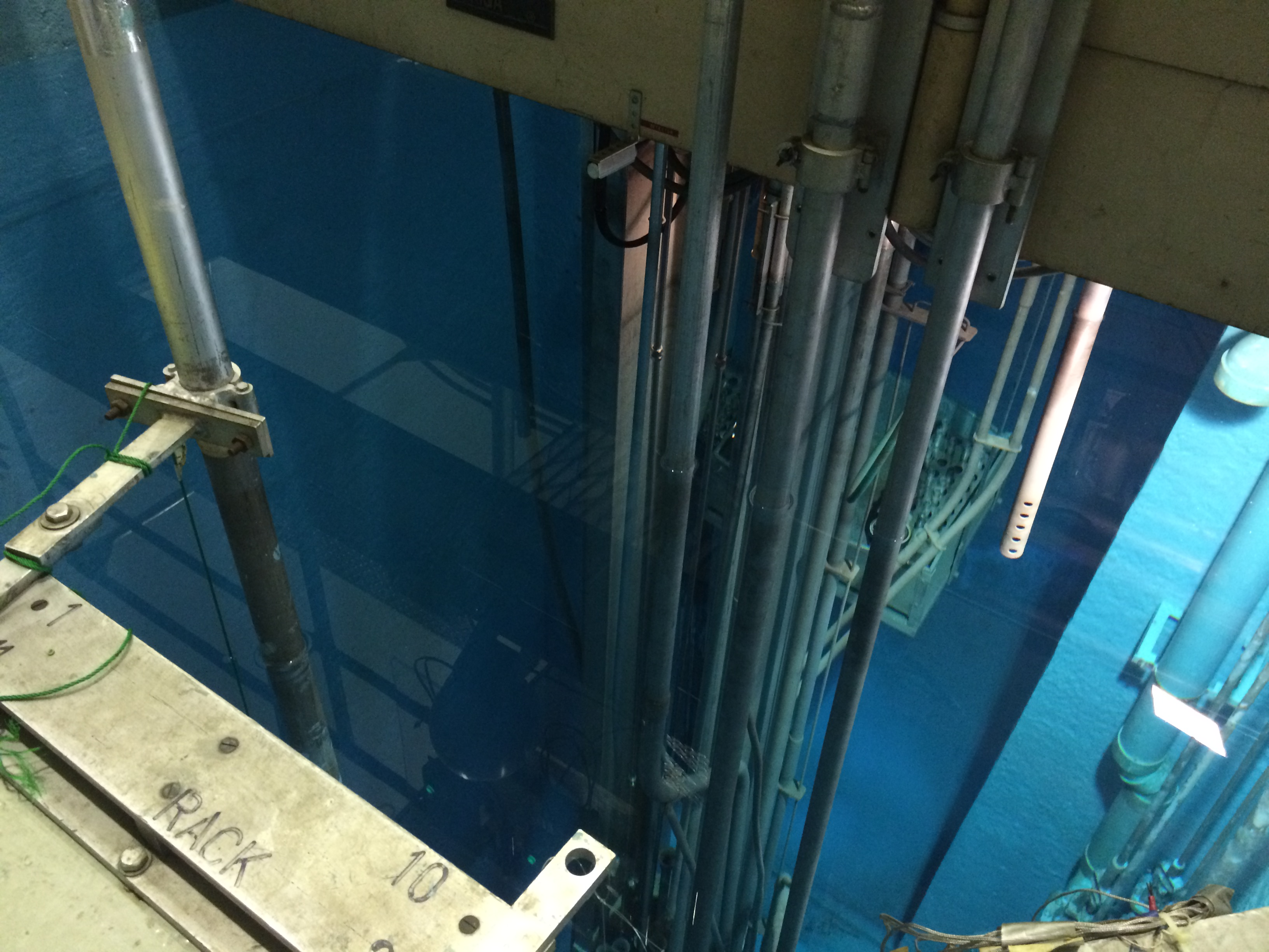 a 2-megawatt nuclear research reactor, Thai Research Reactor 1/Modification 1 (TRR-1/M1). The TRR-1/M1 is of the type TRIGA Mark III, built by General Atomics, and began operation in 1962 after being commissioned in 1961 as a 1MW reactor. The TRR-1/M1 underwent its modification during 1975-1977, at which point it began operation as a 2MW reactor. TRR-1/M1 is the only nuclear reactor in Thailand.